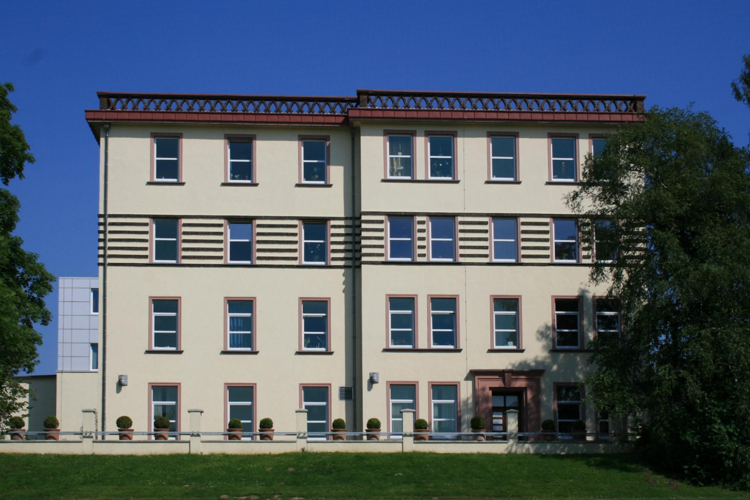 Cultural heritage monument No. M 057 in Mönchengladbach